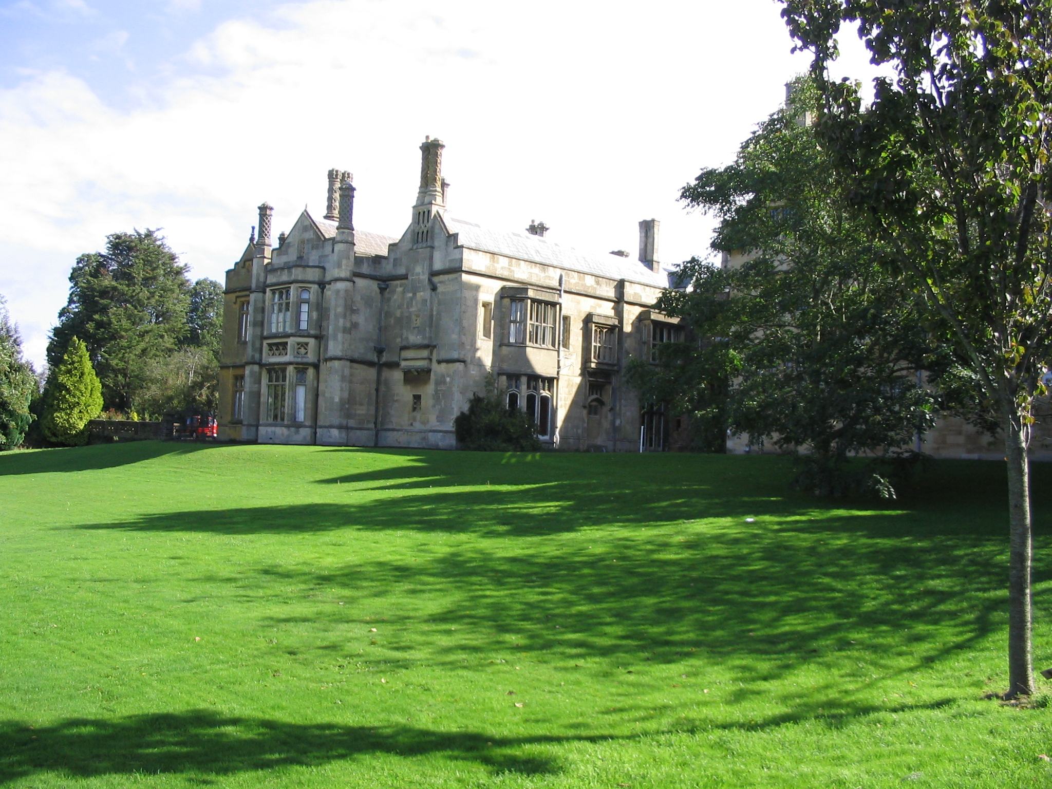 Wills Hall Warden's Lodgings